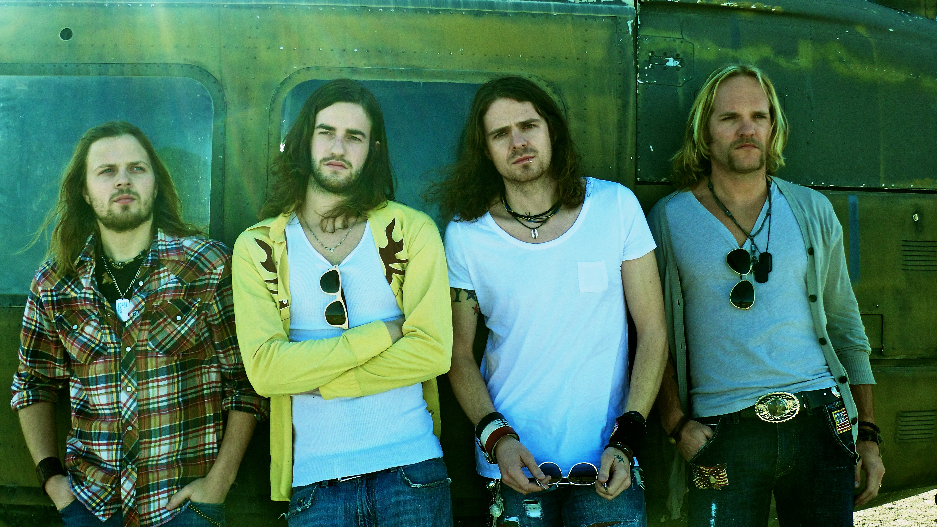 Band promotional photo 2012